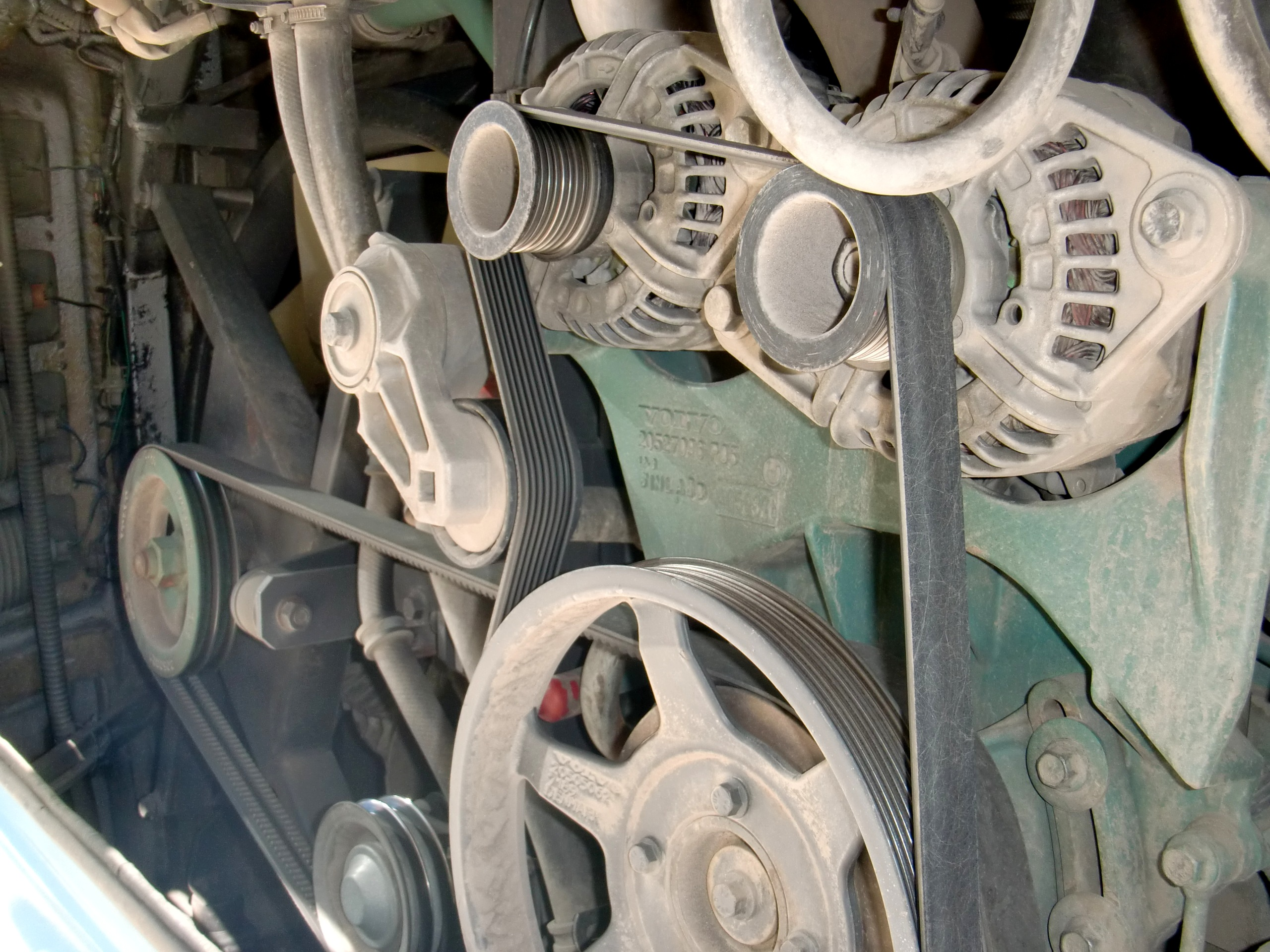 Belt drive system of VOLVO bus engine room. V-rib-belt(near) & Timing belt